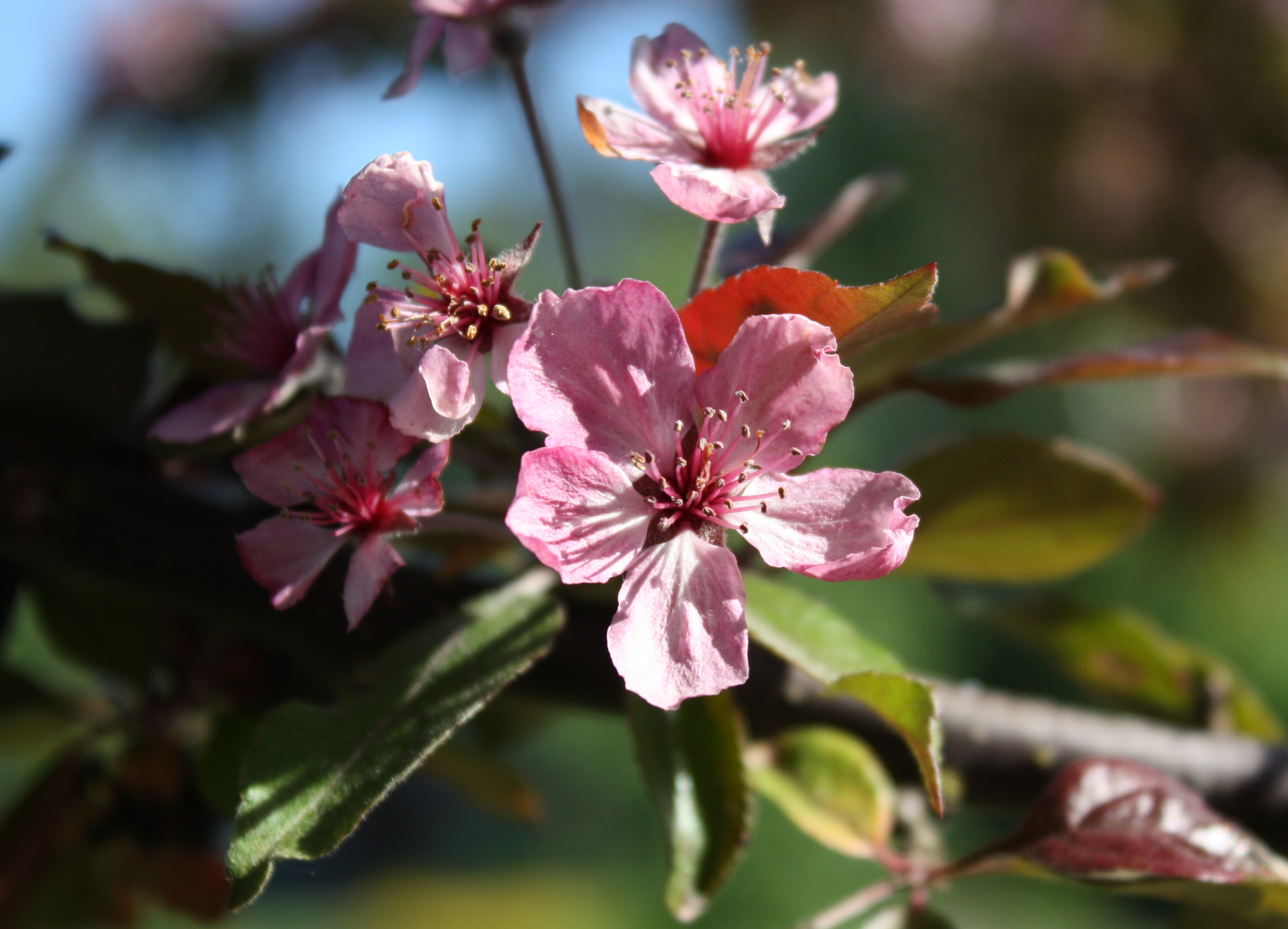 Malus x purpurea 'Linnanmäki' in Gardenia-Helsinki Botanical Garden in Finland